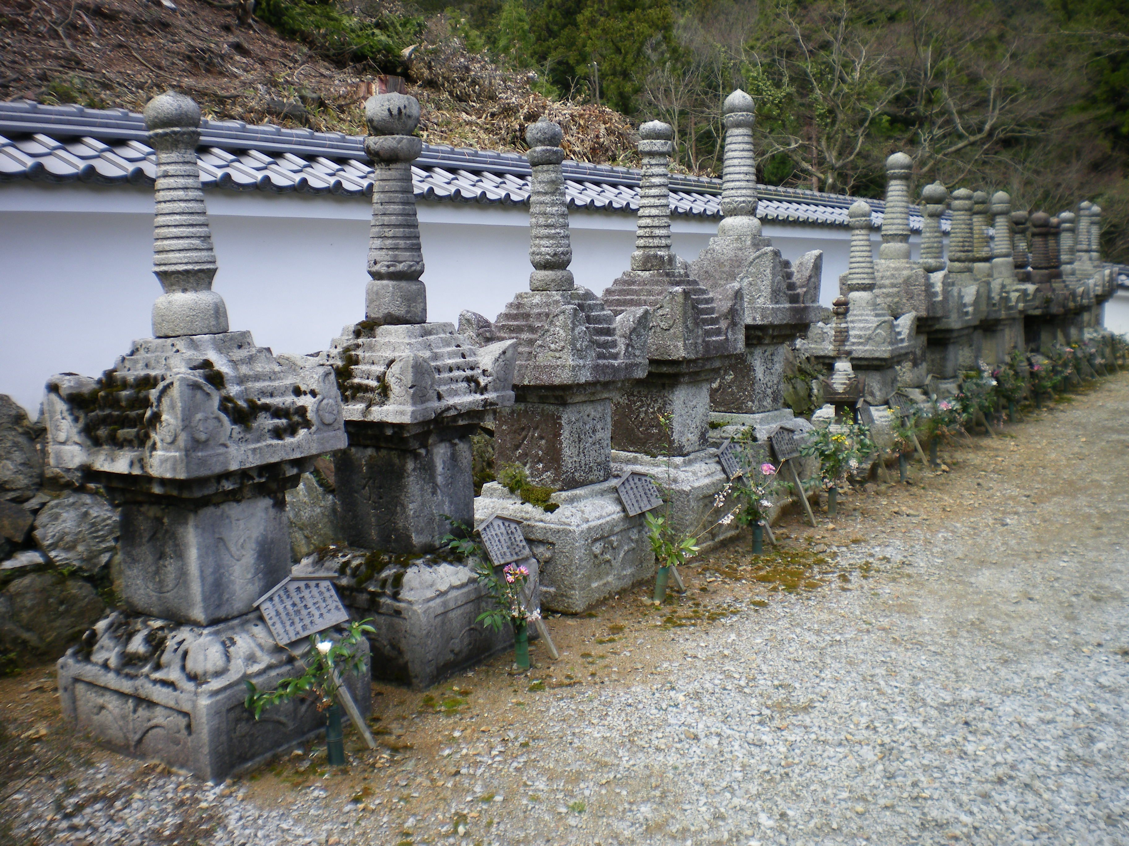 Tokugen-in's graveyard